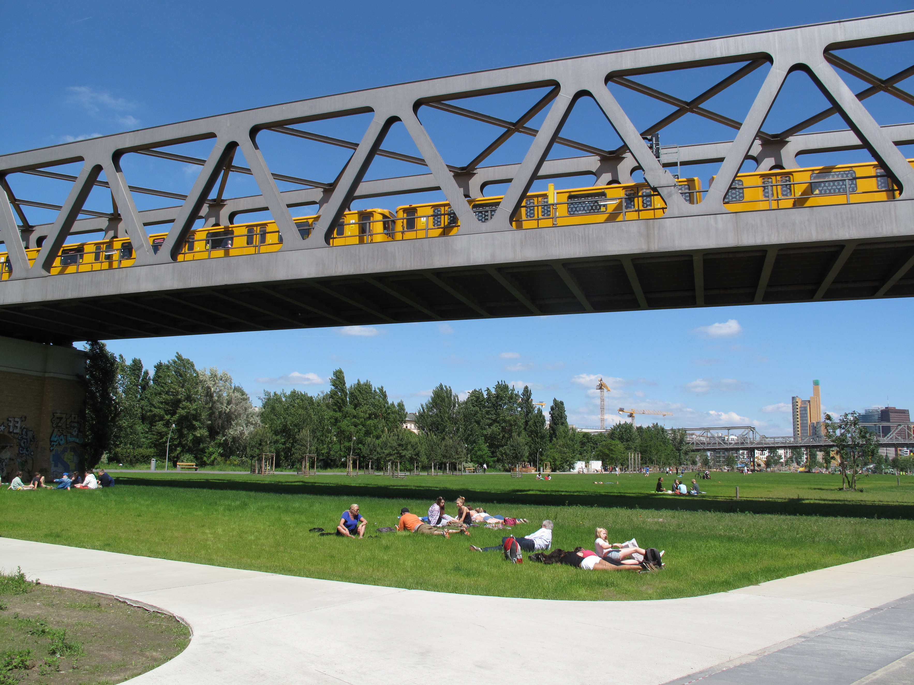 „Schöneberger Wiese“ and elevated Berlin underground line 2 in the Westpark. The Westpark is a 9 hectare part of the Park am Gleisdreieck in Berlin-Kreuzberg, Germany. The Westpark was opened on May 31, 2013.